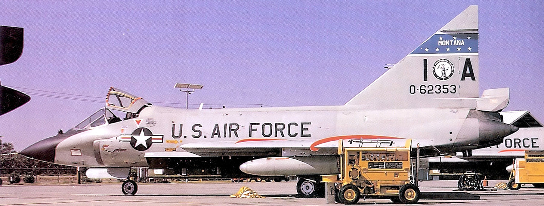 186th Fighter-Interceptor Squadron Convair TF-102A-41-CO Delta Dagger 56-2353. Aircraft now on display at Air National Guard Museum, Volk Field, Wisconsin